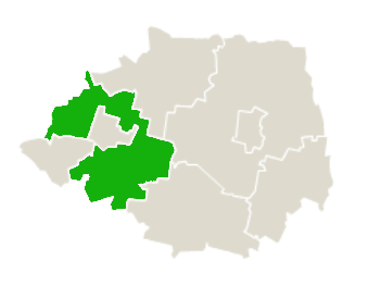 Outline Map of Gmina Bransk